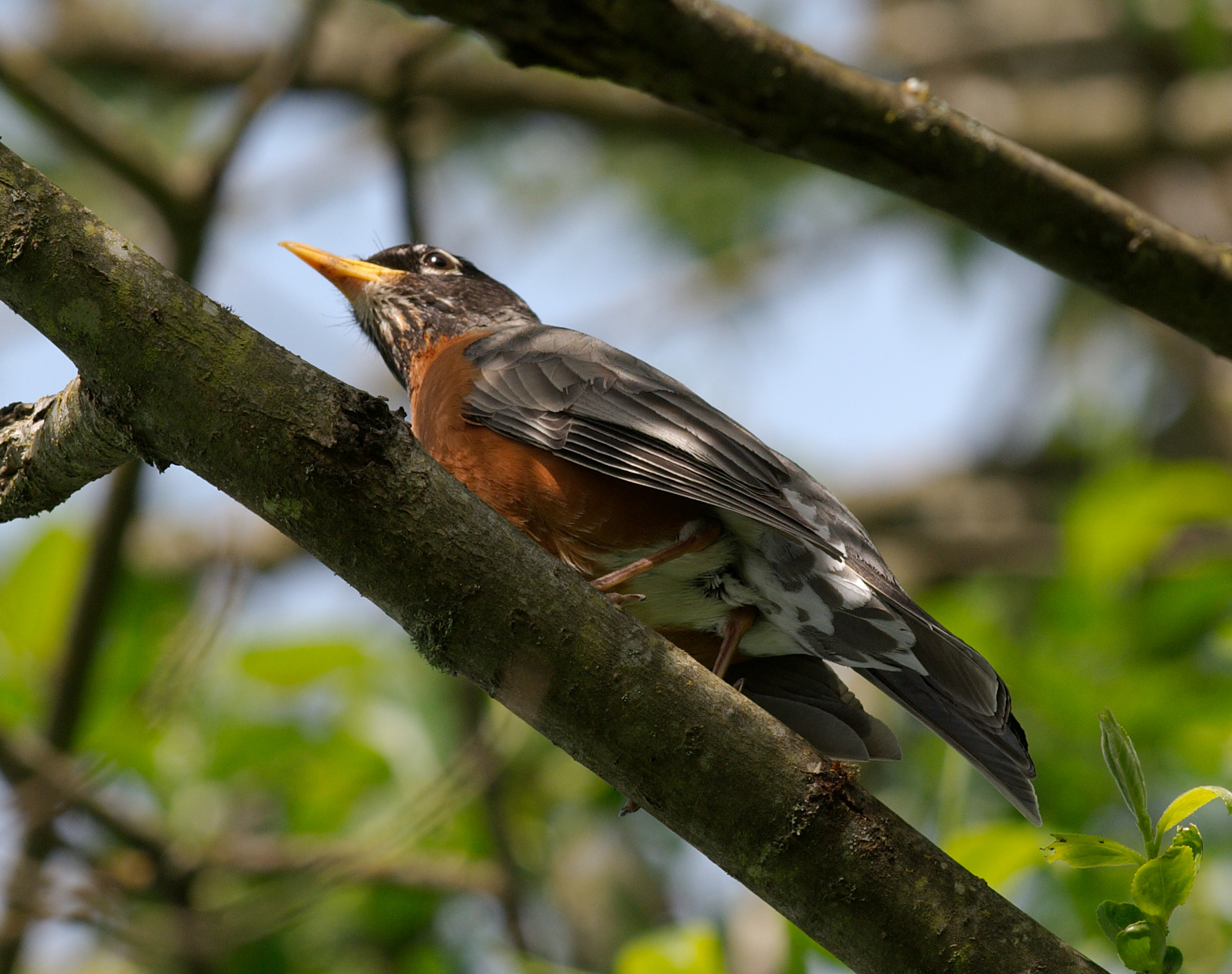 American Robin in a tree in the meadow reserved for ground nesting birds in Marymoor Park.